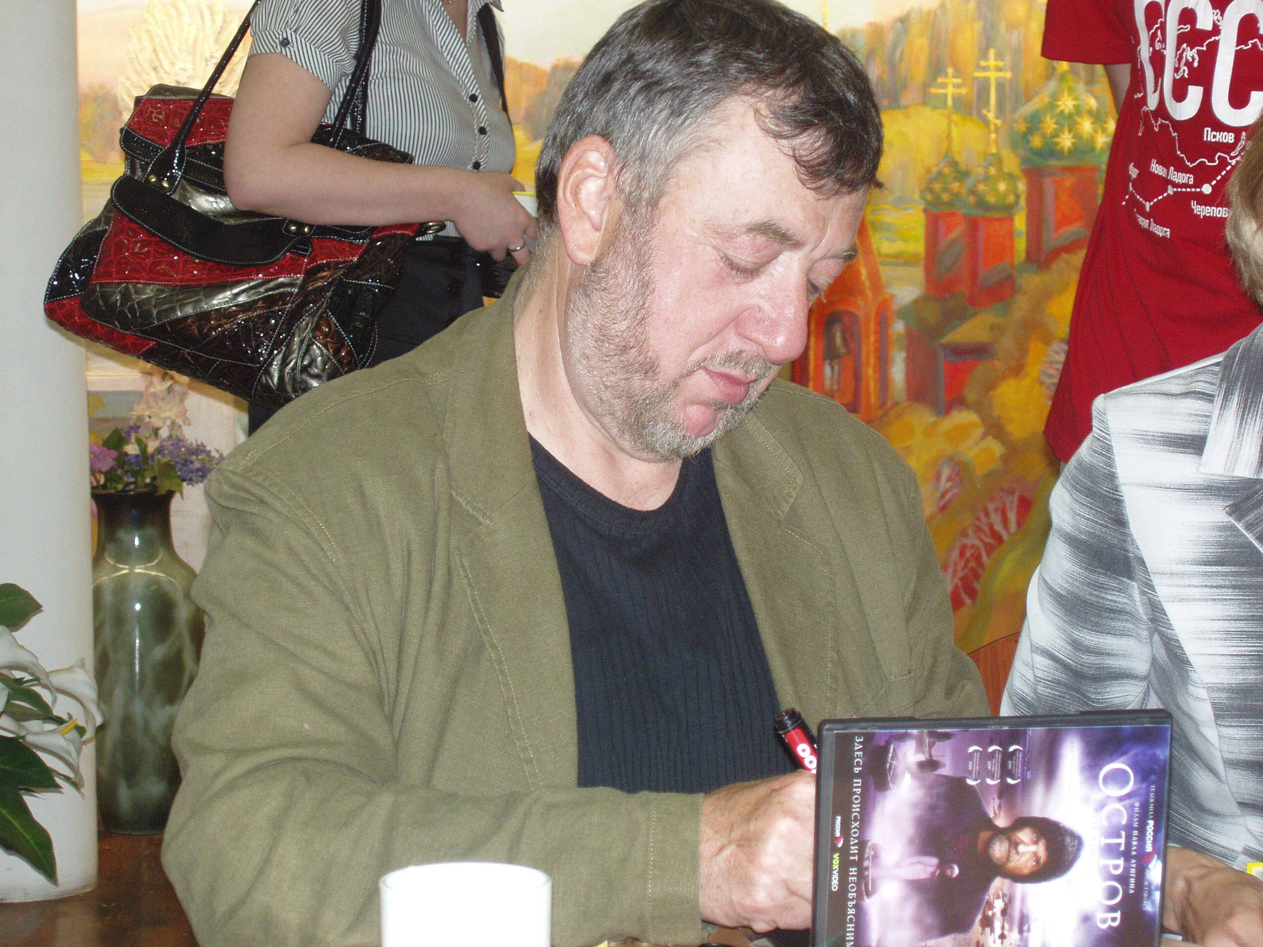 Pavel Lungin - writer, film director